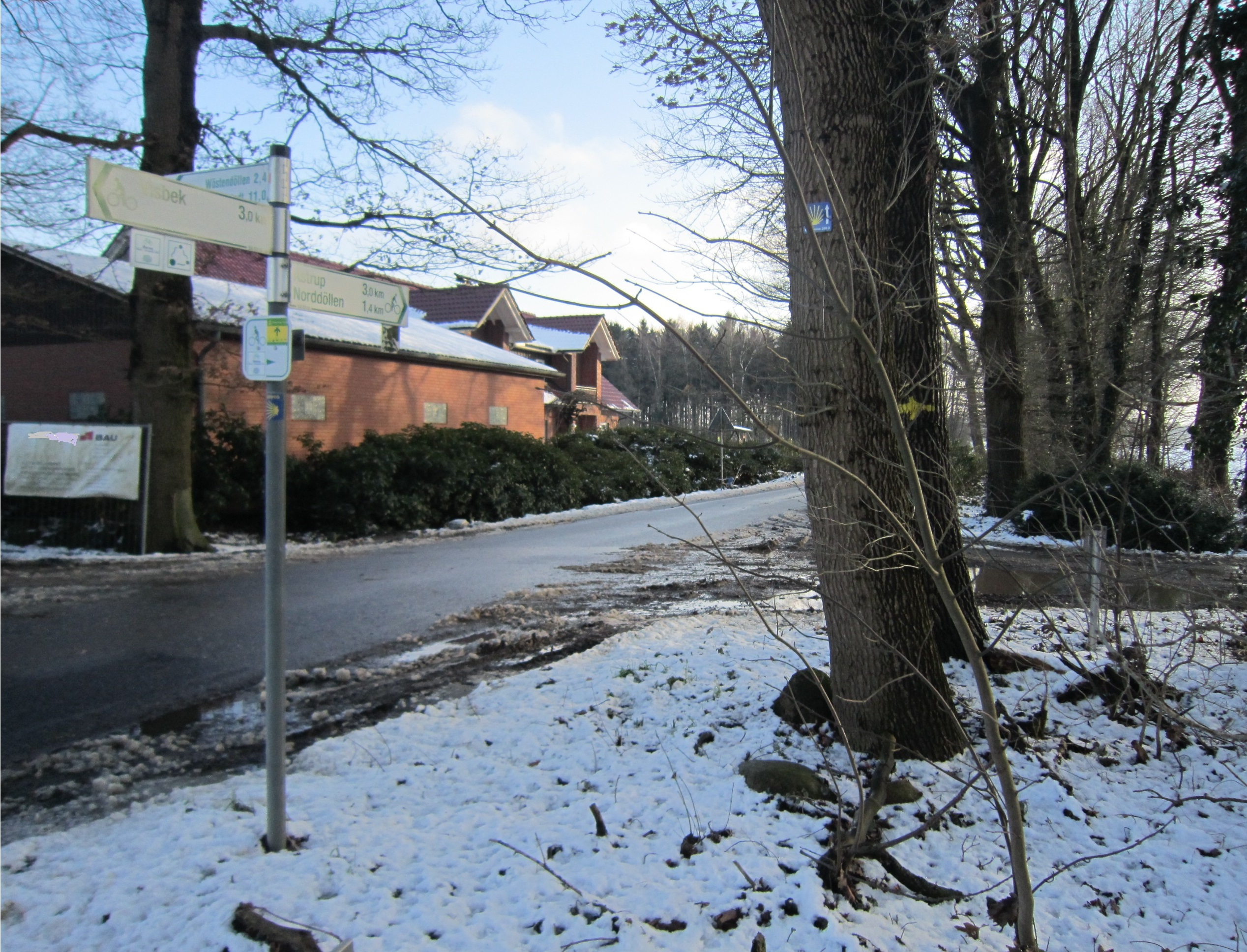 Crossroad Pickerweg / Reuterweg (old roads) between Visbek and Norddöllen